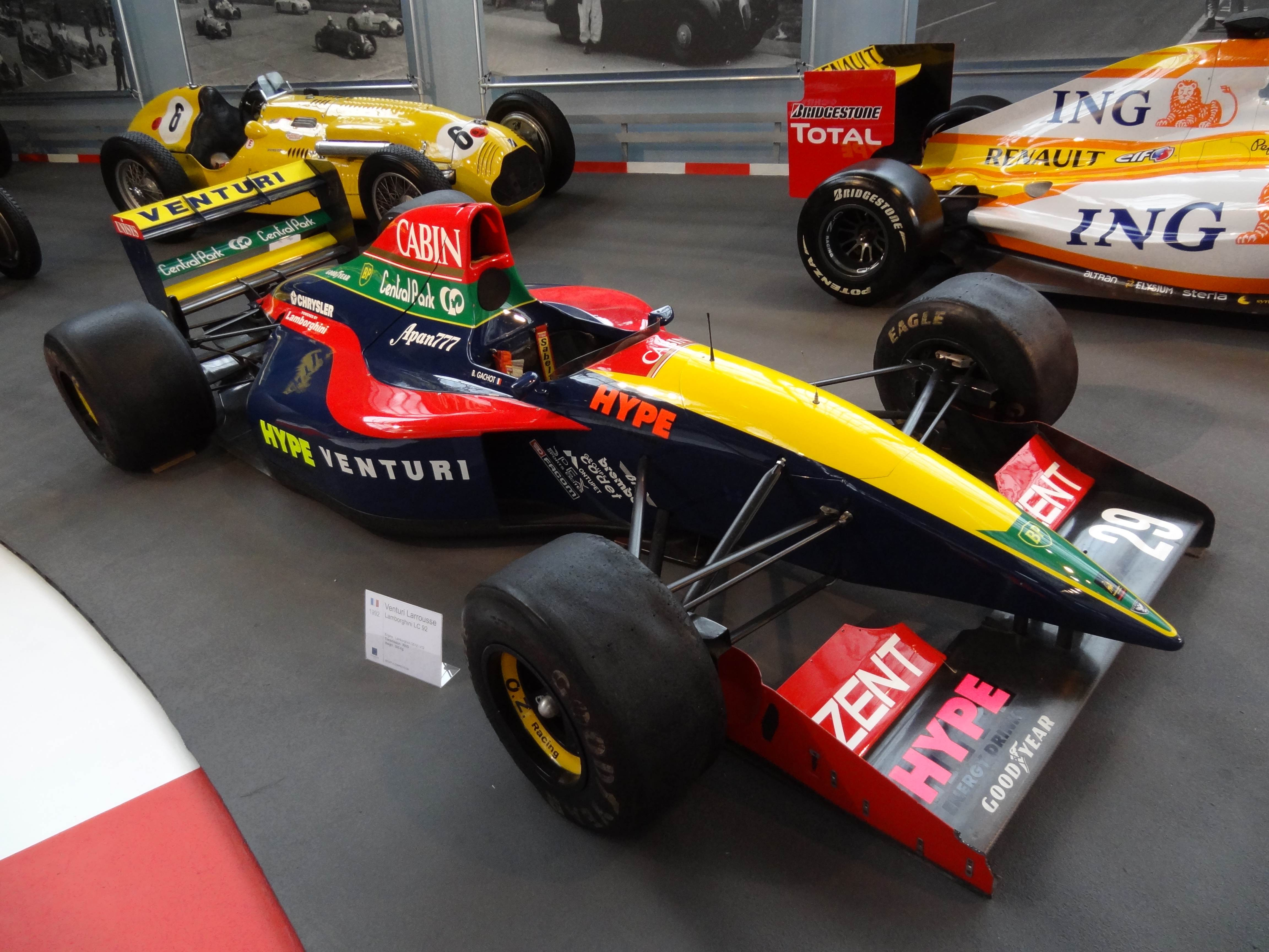 Venturi Larrousse Lamborghini LC 92 (1992), Autoworld Brussels